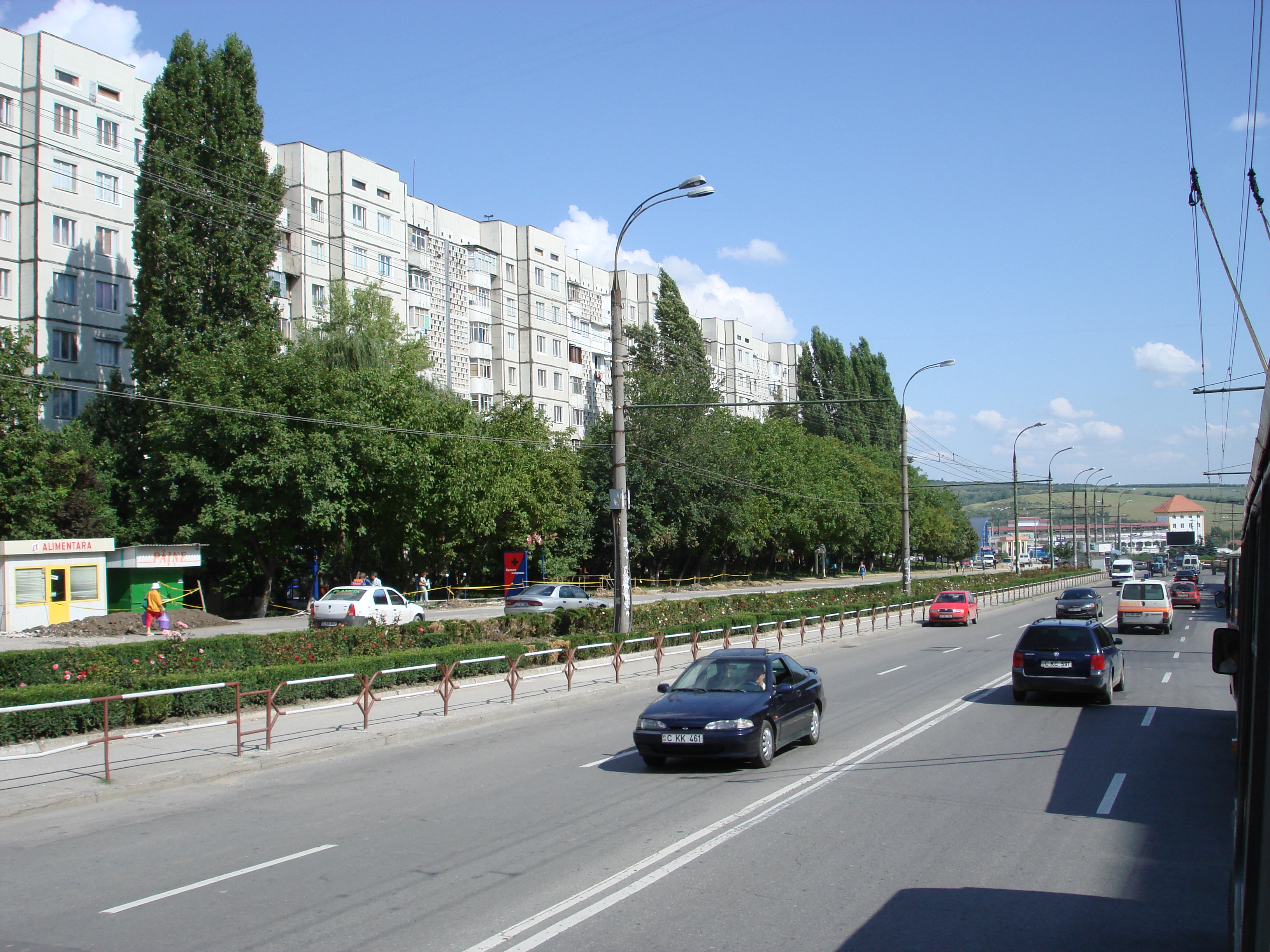 Ciocana, Chisinau, Moldova